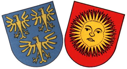 "Coat of arms" of the communes of Granges and Sierre